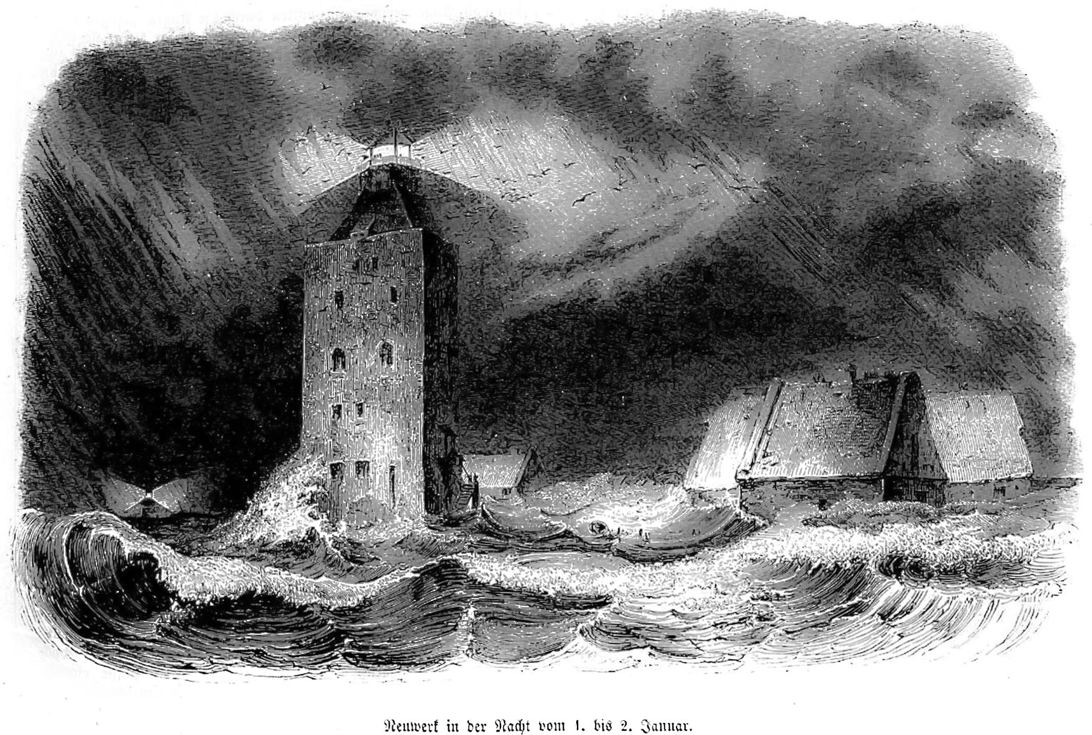 caption: "Neuwerk in der Nacht vom 1. bis 2. Januar."